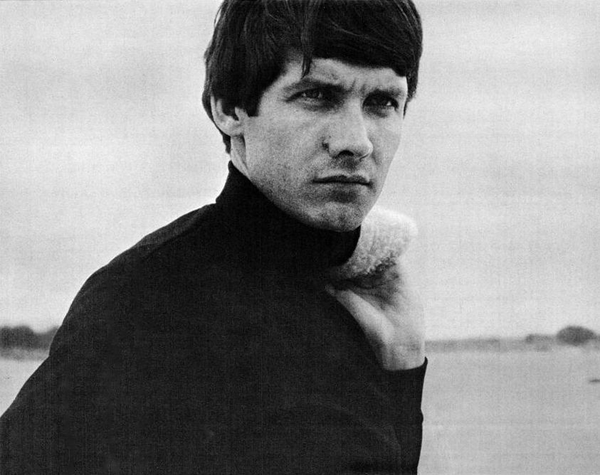 Trade ad for Billy Joe Royal single "Deep Inside Me".To better adapt it to his respective Wikipedia article, the ad was cropped and cleaned in a graphics editing program before upload. The original can be viewed on the source below.